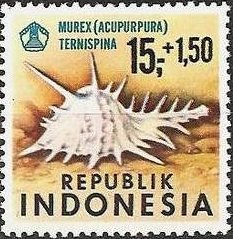 1969 Indonesia stamp showing shell of Murex ternispina.